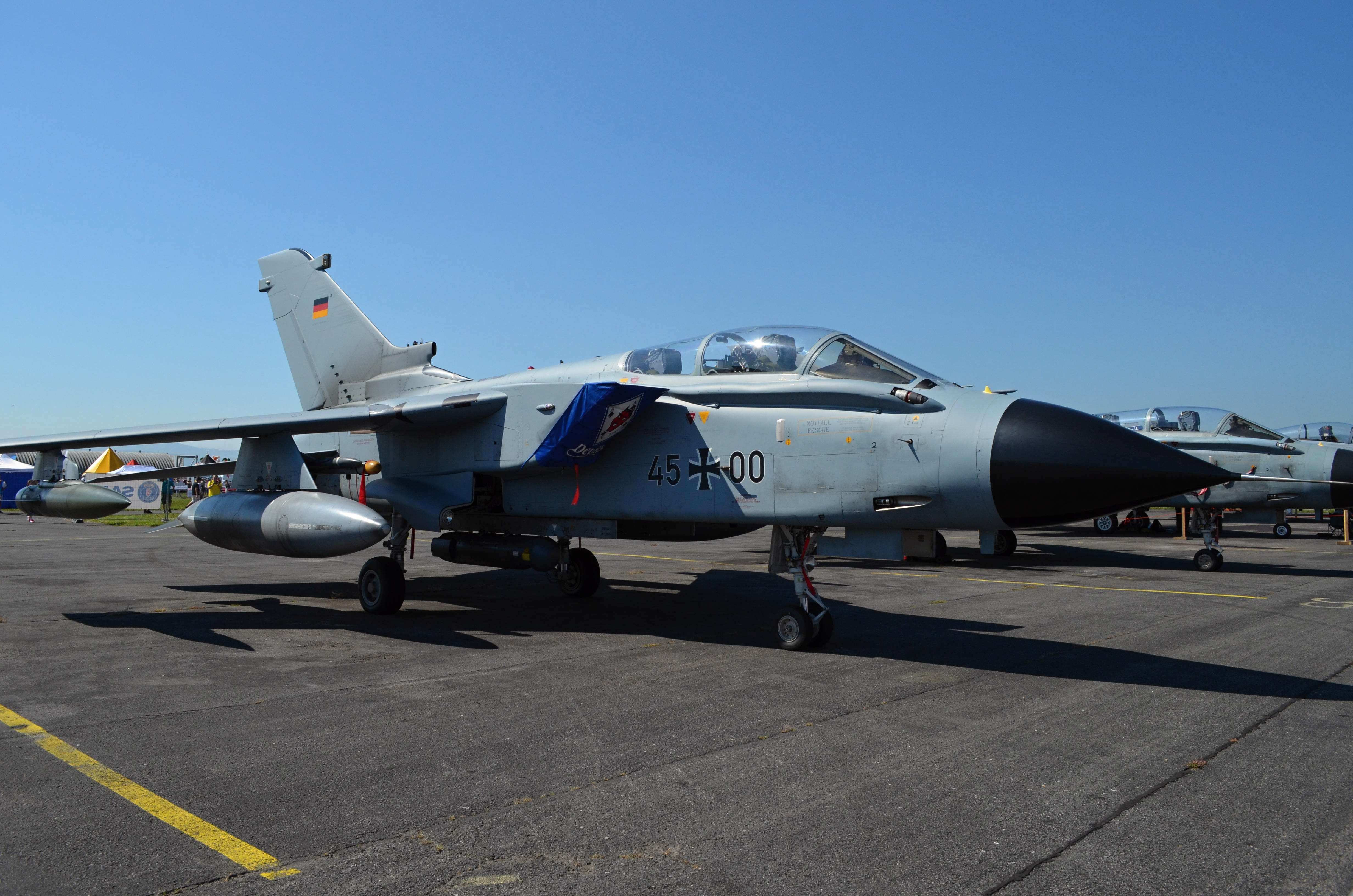 Panavia Tornado ECR static display at SIAF 2015